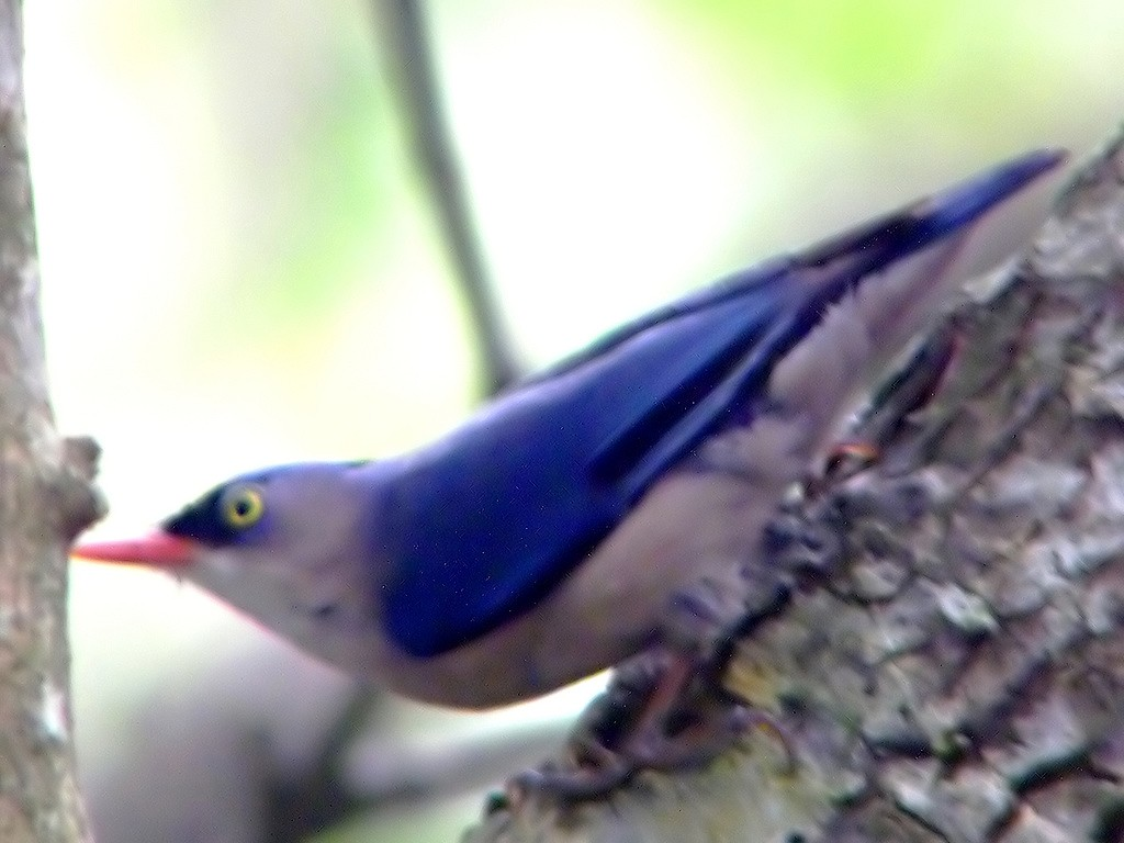 Velvet-fronted Nuthatch (Sitta frontalis).